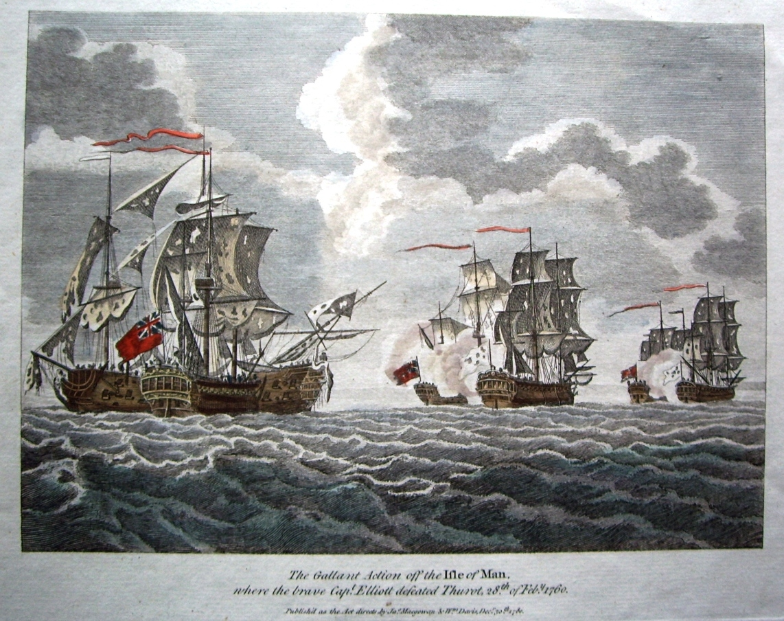 'The Gallant Action off the Isle of Man where the brave Captain Elliott defeated Thurot 28th of February 1760'. The action took place off Bishop's Court between Captain Elliott and the French Captain Thurot the former smuggler with connections to the Isle of Man. The picture was published in 1780 by James Mocgowan and William Davies. Brilliant is partly obscured at centre rear.[1]